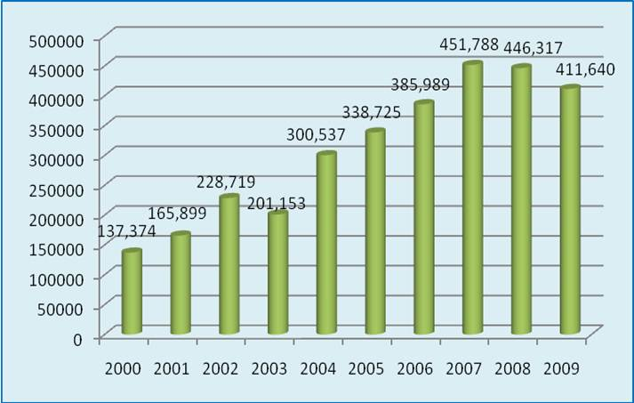 Foreign tourist number (Source: Ministry of Nature, Environment and Tourism, Mongolia)